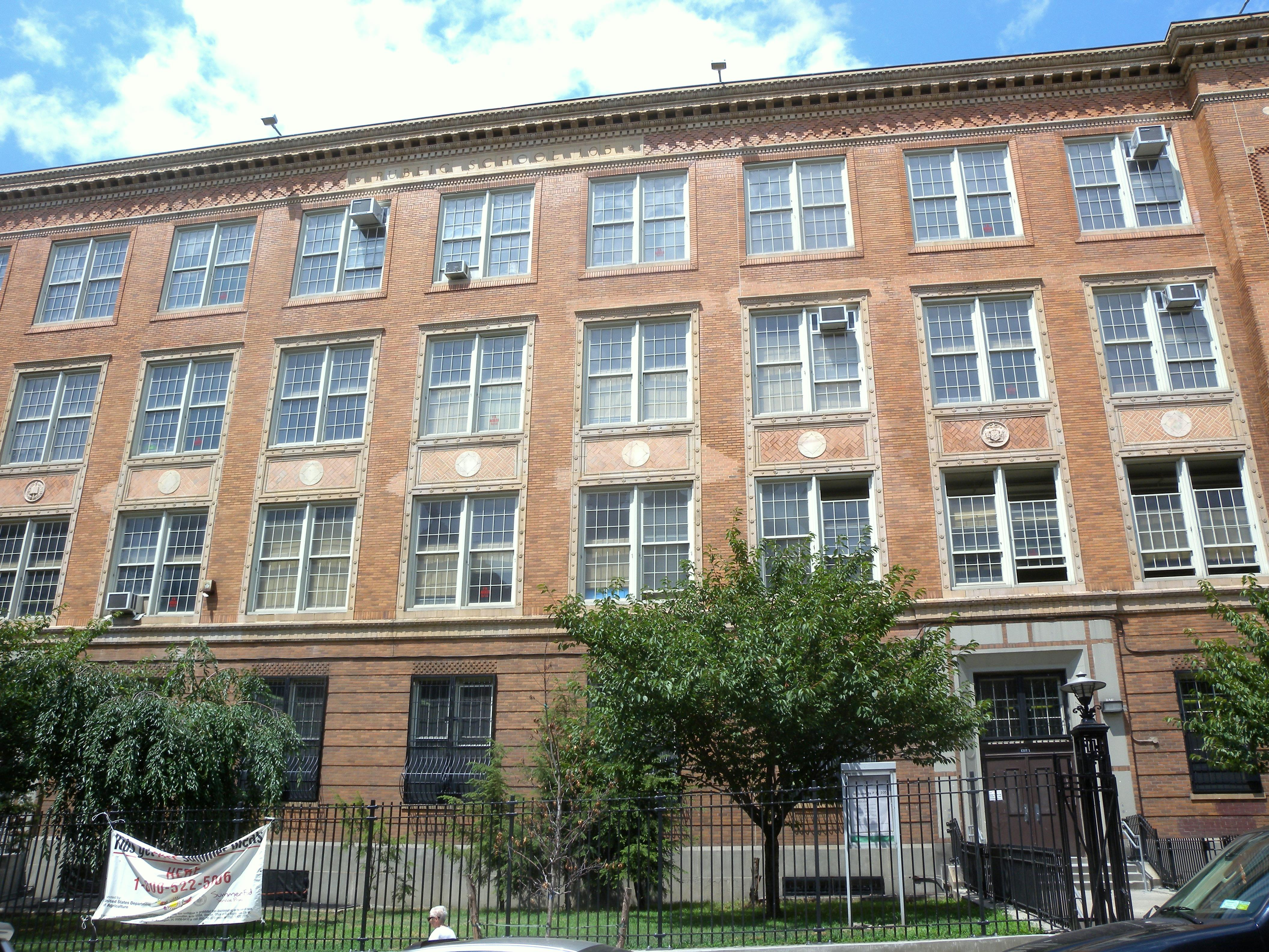 Looking north across Brady Avenue in Bronxdale, at PS 105, the Senator Bernstein School, on a mostly sunny midday.